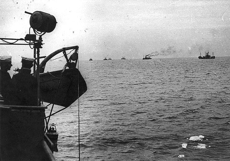 Twenty-five Ship Convoy Nearing Brest, France, on 1 November 1918. Photographed from USS Rambler (SP-211), a yacht converted to a convoy escort. Photographed by Robert W. Neeser.